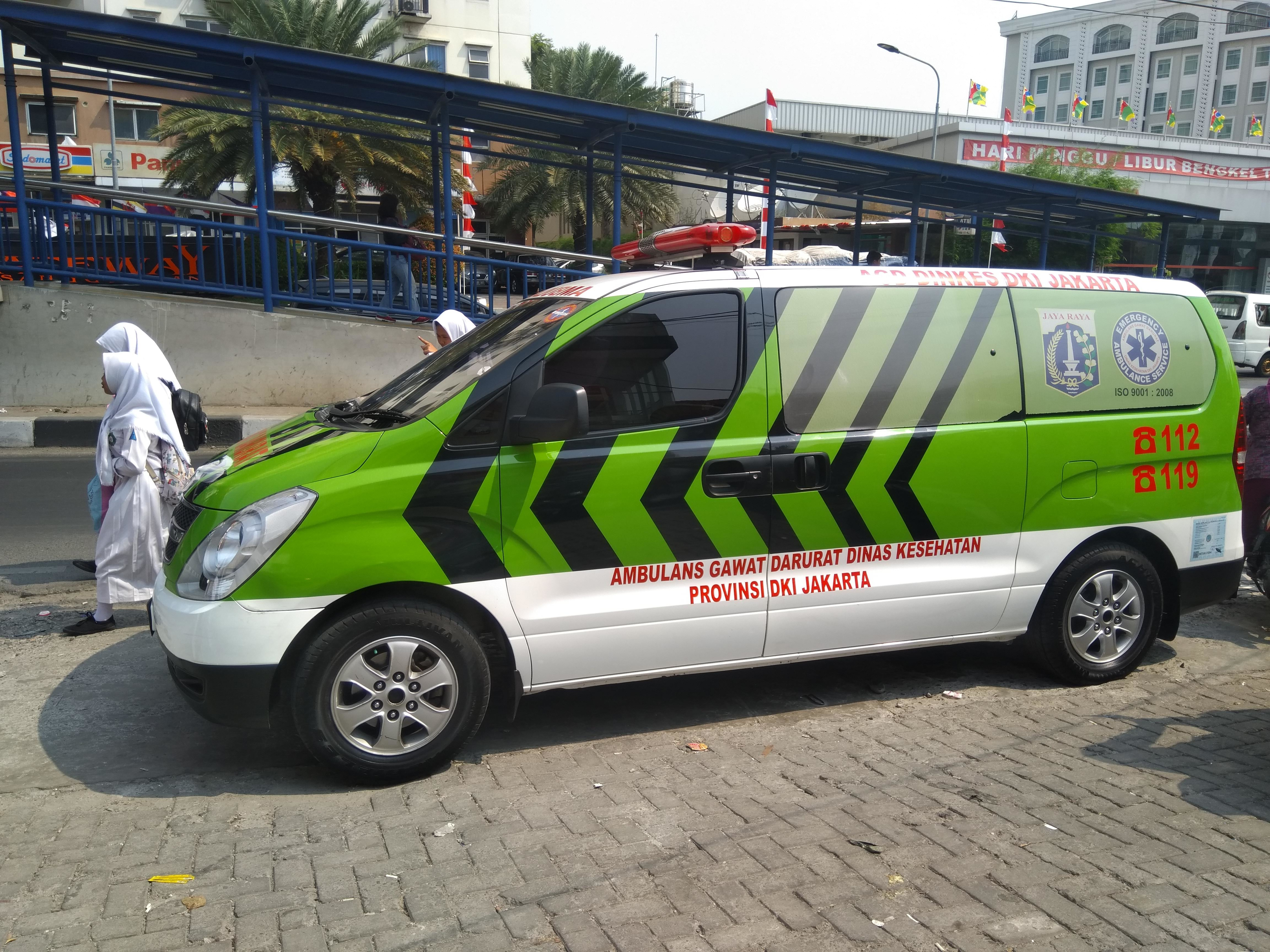 A Jakarta Health Service ambulance.